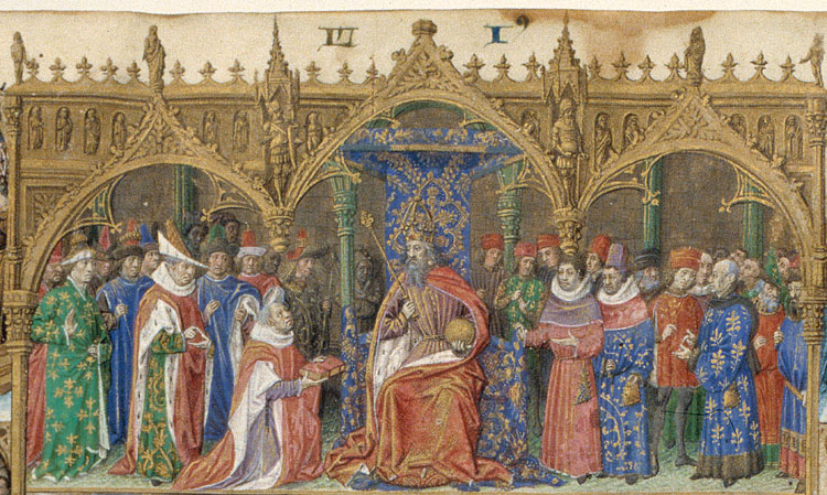 Valerius Maximus, Des faits et des paroles mémorables Place of origin, date: Loire region; c. 1475 Material: Vellum, ff. 485, 390x285 (238x167) mm, 2 columns, 42 lines, littera cursiva. French. Binding: 18th-century brown leather, blind Decoration: 1 miniature (full-page + margin; f. 83r), 6 miniatures (full-page including some lines of text + margin); ff. 2r, 204r, 245r, 289r, 321r, 365r); 6 two-column miniatures (195/210x165 mm); 2 two-column miniatures (140x170 mm); 7 column miniatures (83/47x74 mm); decorated initials with border decoration (ff. ); penwork initials with pen-flourishes (ff. ) Provenance: Purchased in 1814 by the Russian Tsar Alexander I at Paris and placed in the Imperial Library at St. Petersburg (shelfmark Fr. F. V. IV. 2); sold by the government after the Russian Revolution. Acquired by F. Mannheimer of Amsterdam (d. 1939); confiscated during World War II by the German occupying forces and restituted after 1945; since 1953 on permanent loan from the Stichting Collectie Nederland, Amsterdam (formerly: Dienst voor s-Rijks verspreide kunstvoorwerpen and Rijksdienst voor Beeldende Kunst)